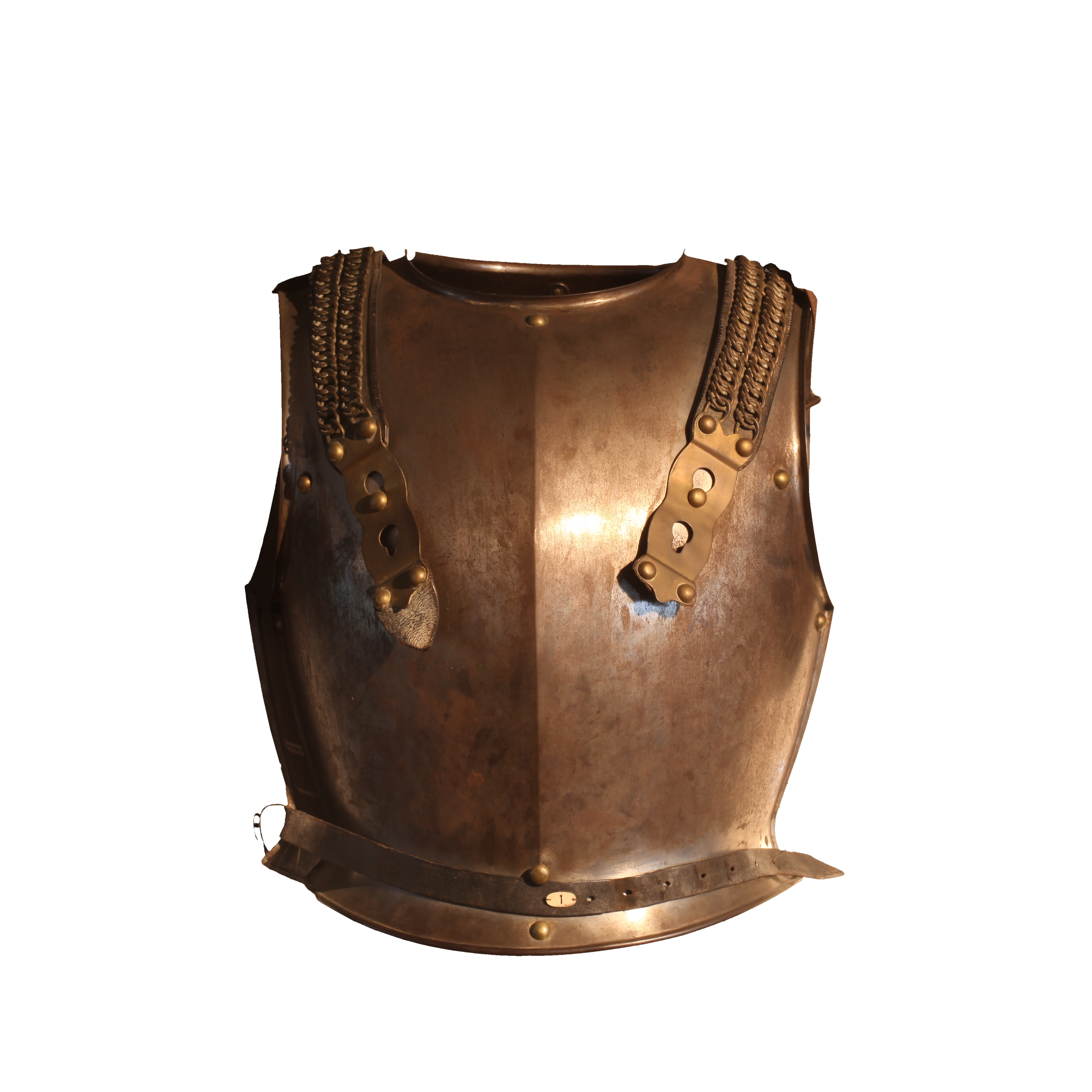 French cuirassier armour, model 1857. Taken from a horseman of Bourbaki's army interned in Switzerland in 1870. On display at Estavayer History museum.